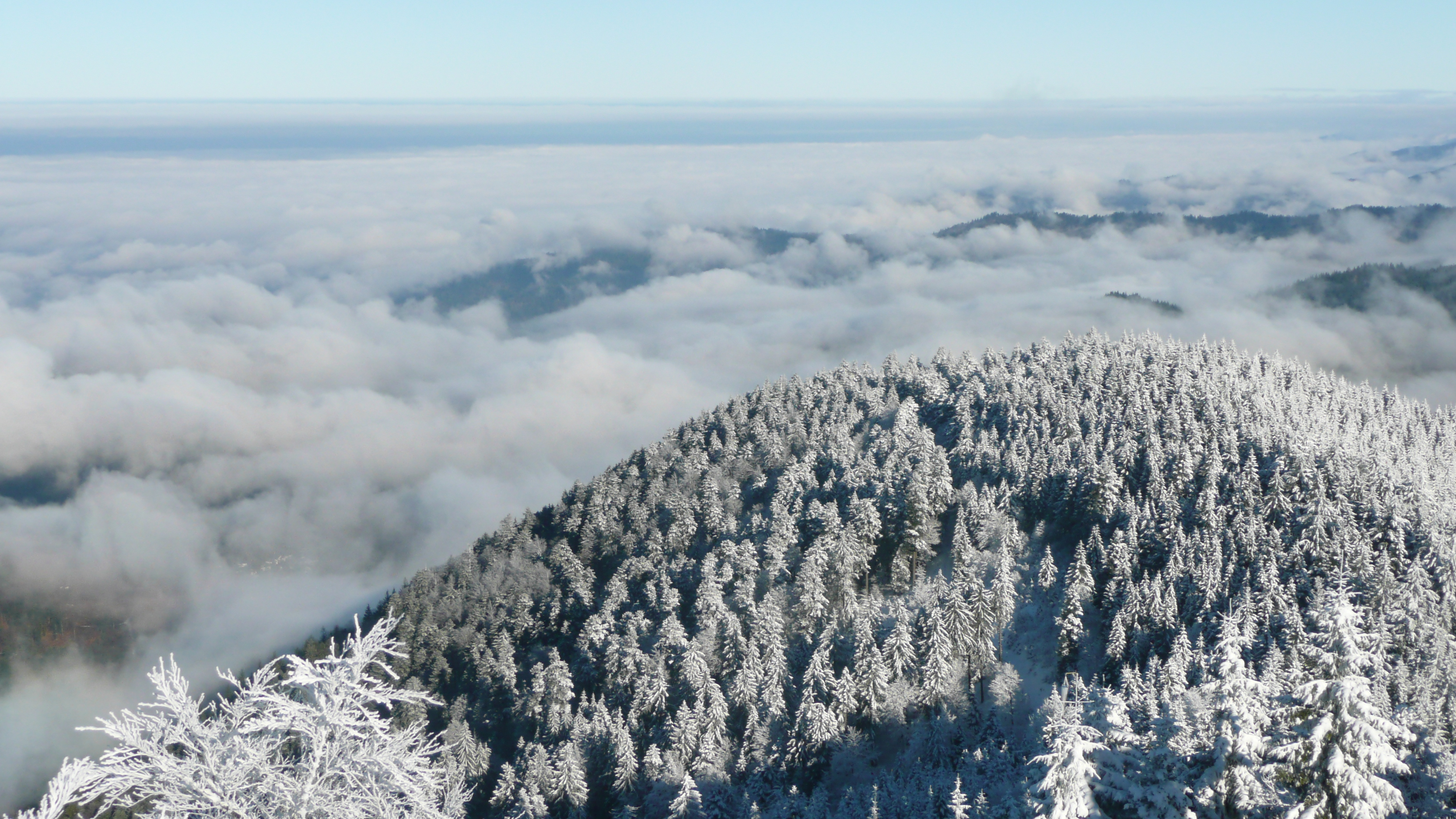 Mountain Hochblauen of the Black Forest near Badenweiler